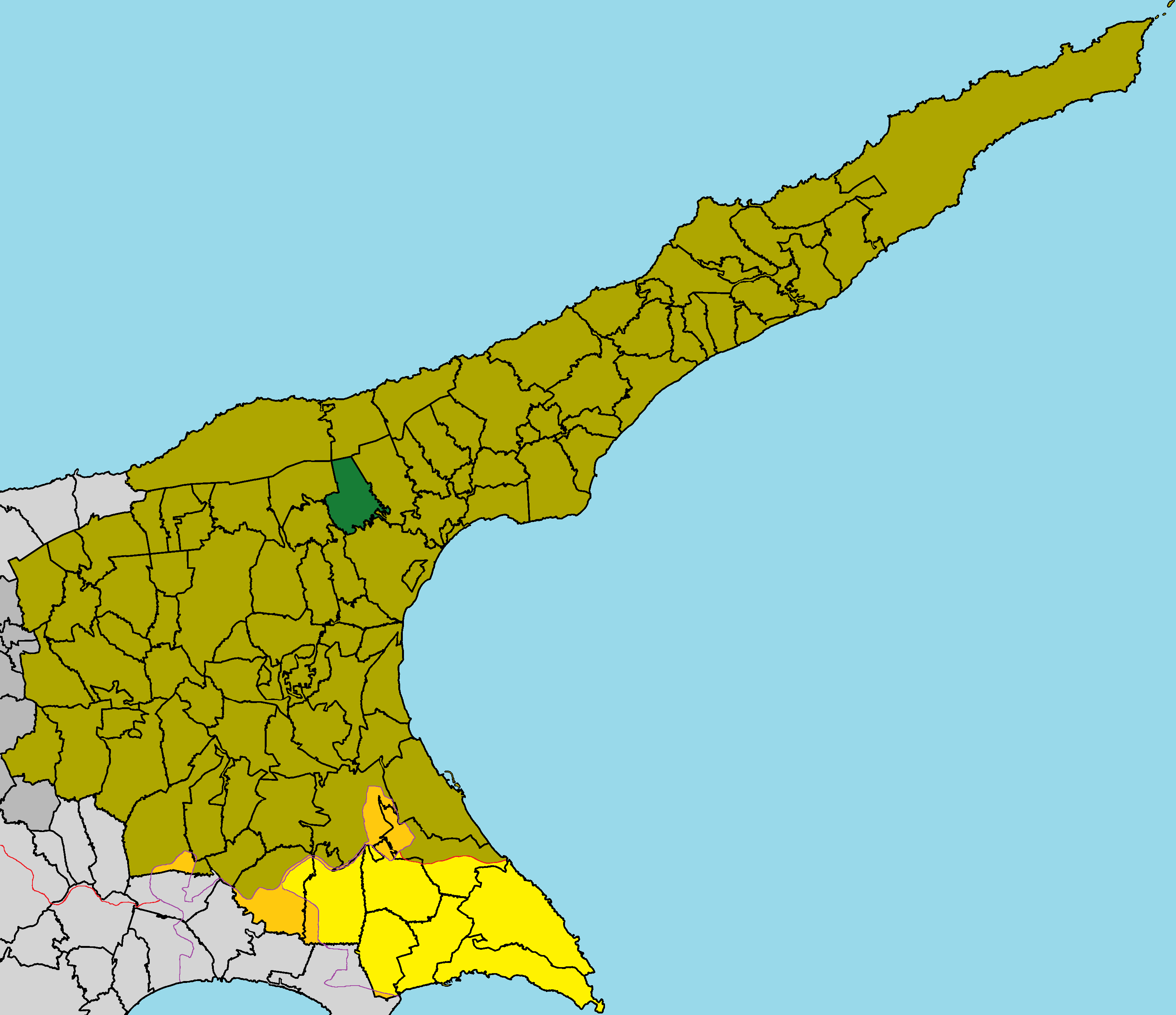 Agios Andronikos Trikomou in Famagusta District (de jure).